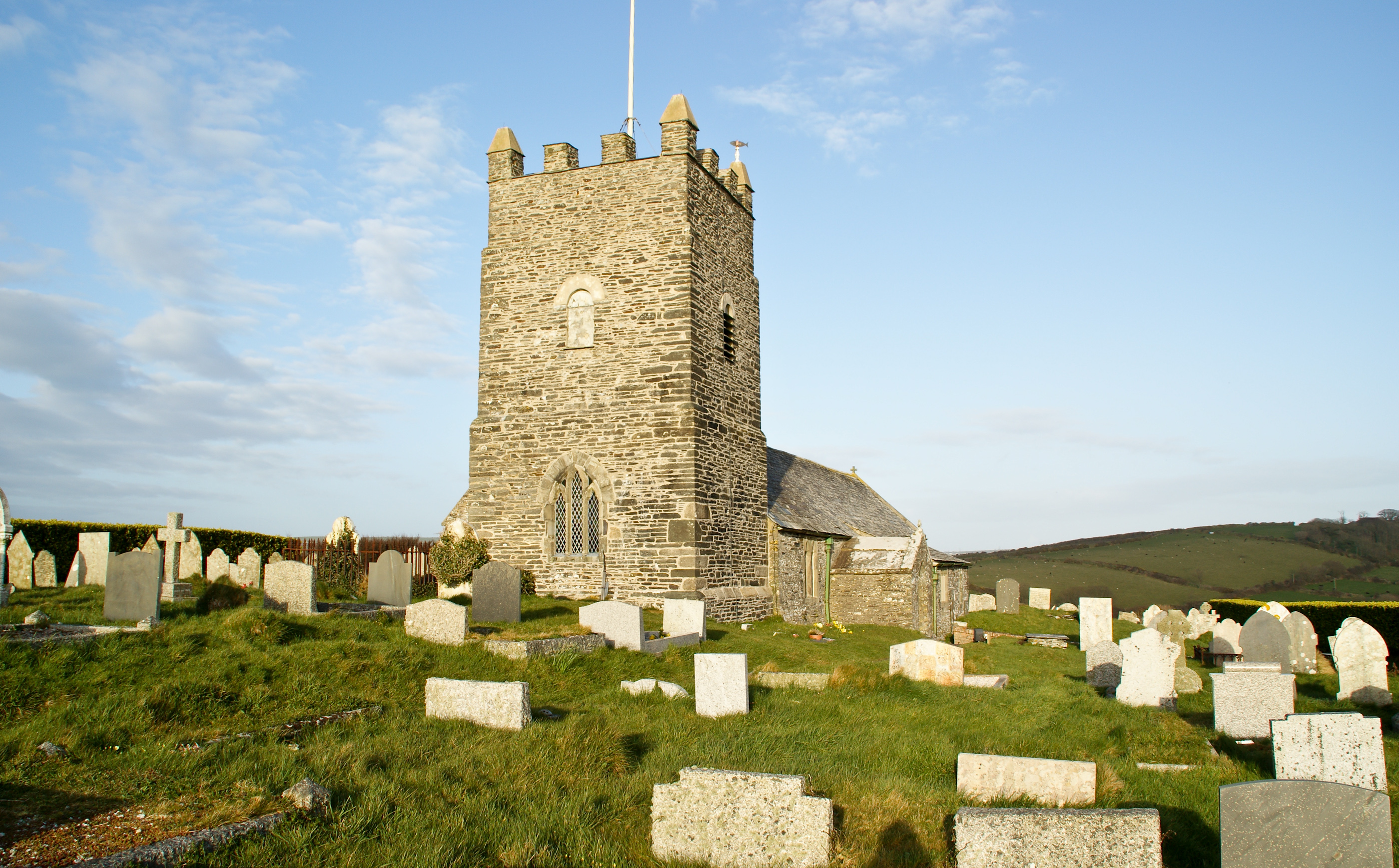 Forrabury Church at Boscastle, Cornwall. While there was a church there since Norman times this building was constructed 1687.